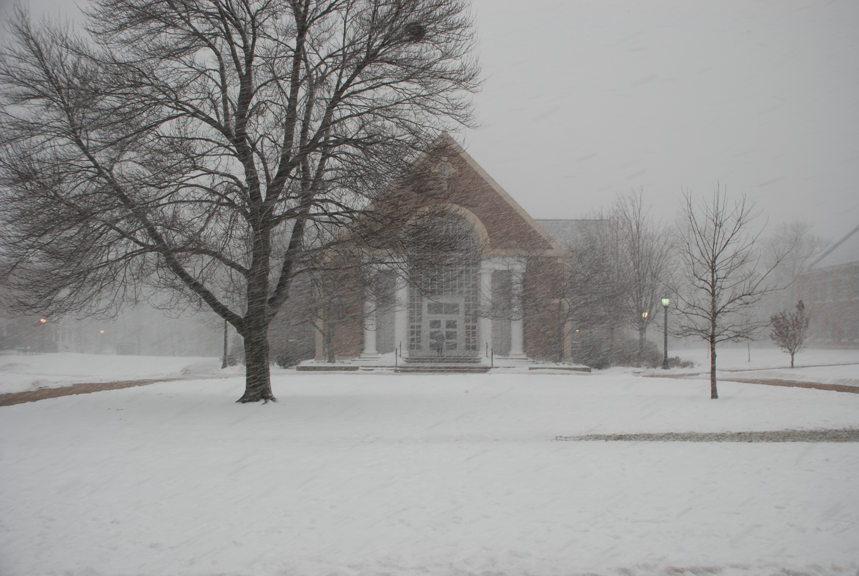 Episcopal High School (Alexandria, Virginia)